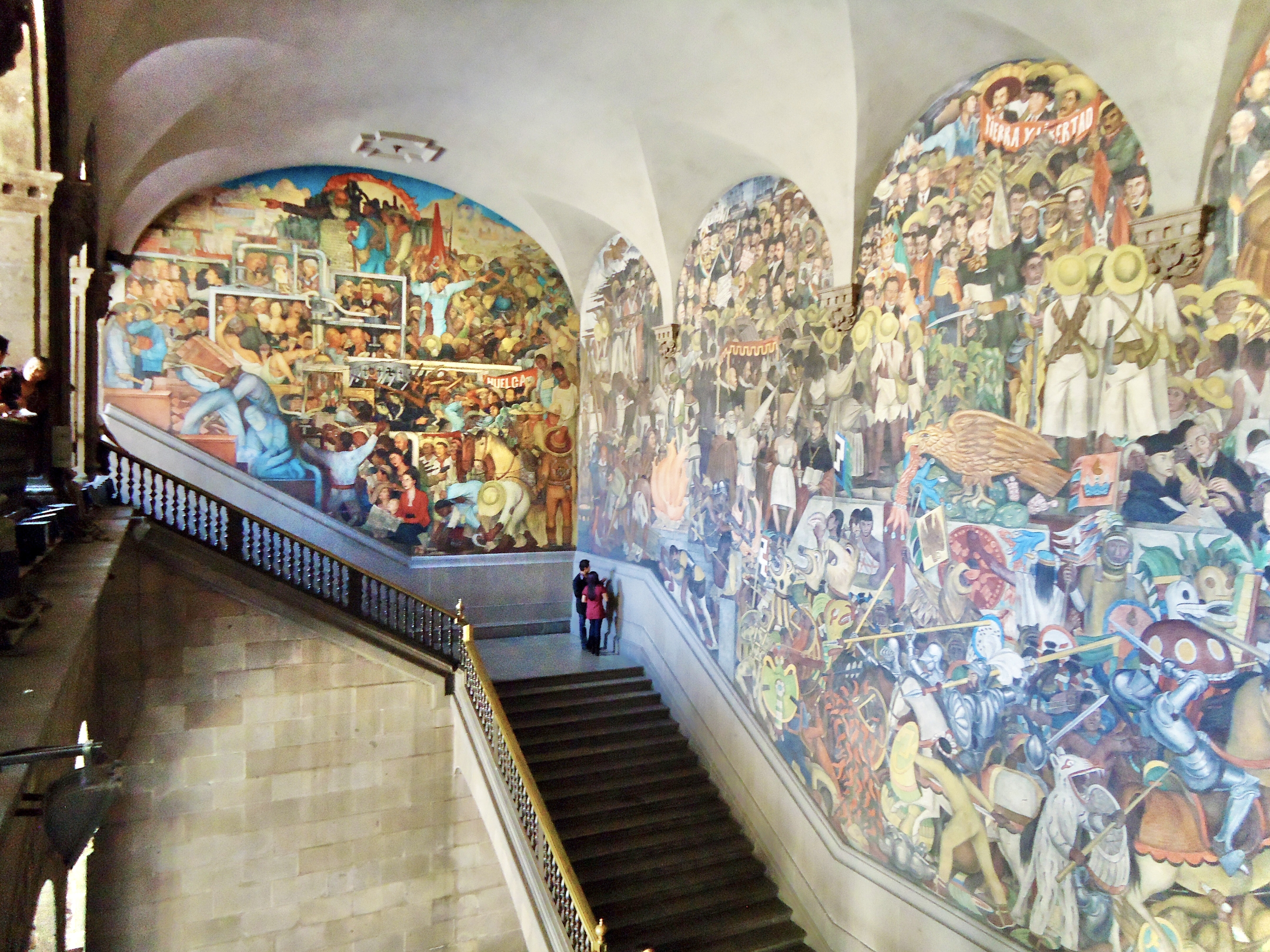 View on the Murals by Diego Rivera in the Palacio Nacional